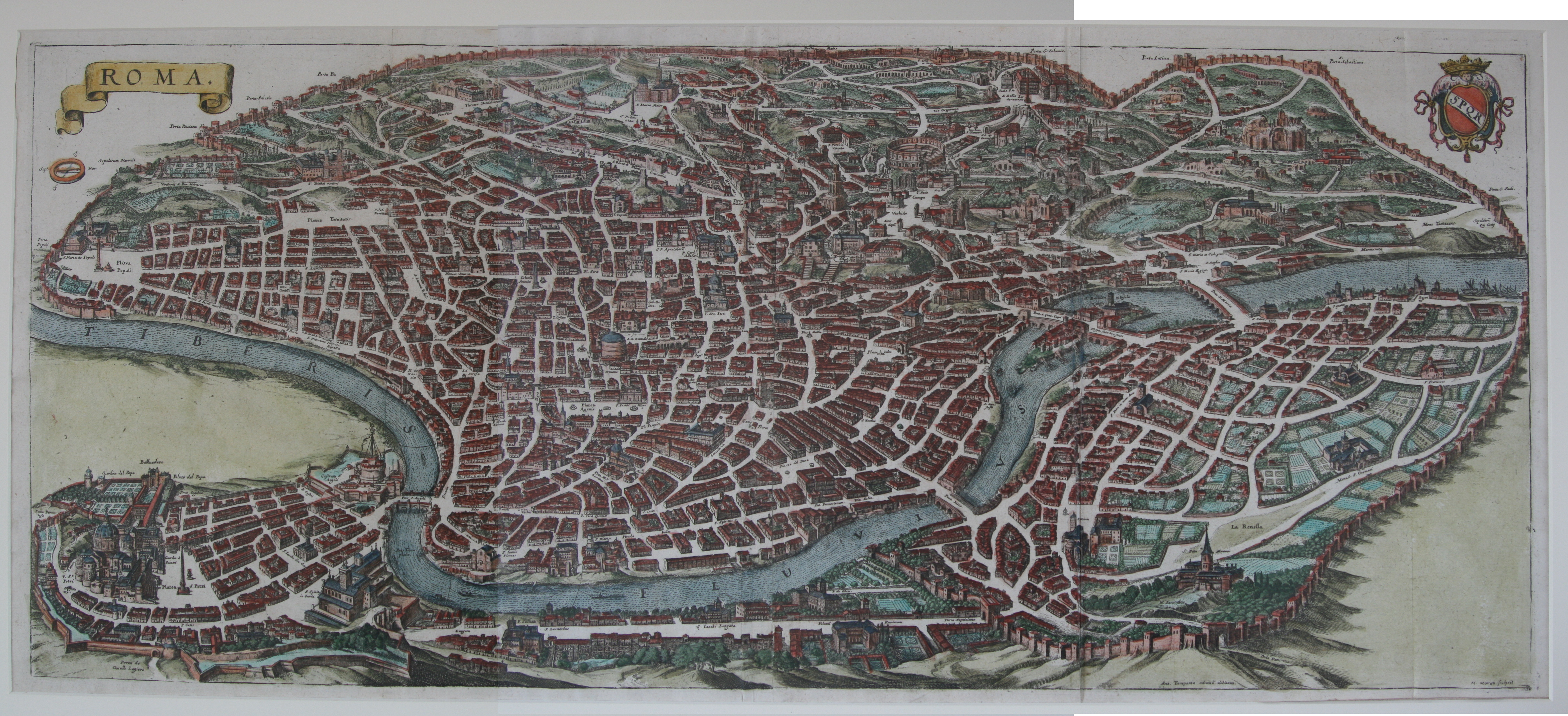 View of Rome, ca. 1640 (Matthaeus Merian, Topographia Italiae, das ist: warhaffte und curioese Beschreibung von ganz Italien...)